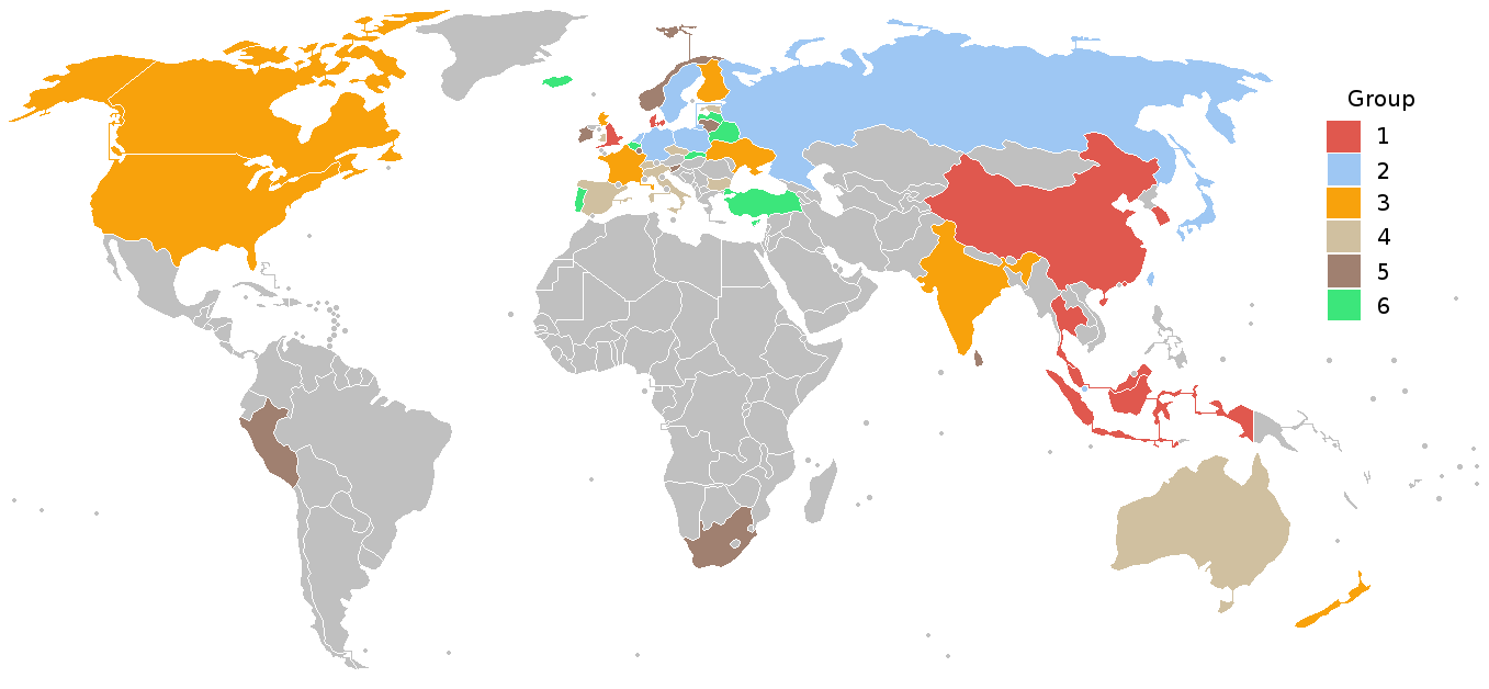 2007 Sudirman Cup participating countries, colors denotes the group